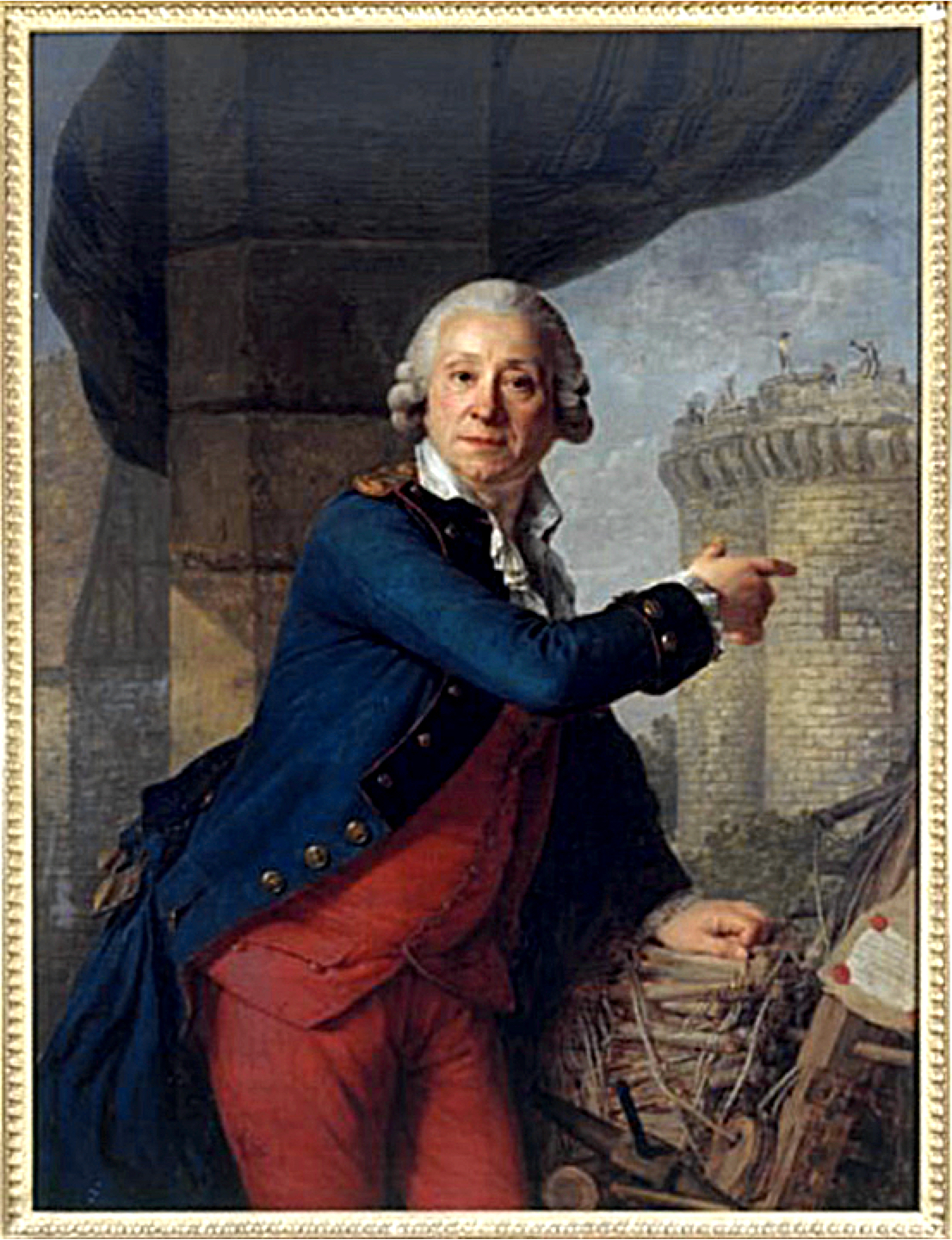 Portrait of Jean Henri Latude (1725–1805), French criminal and memoirist.